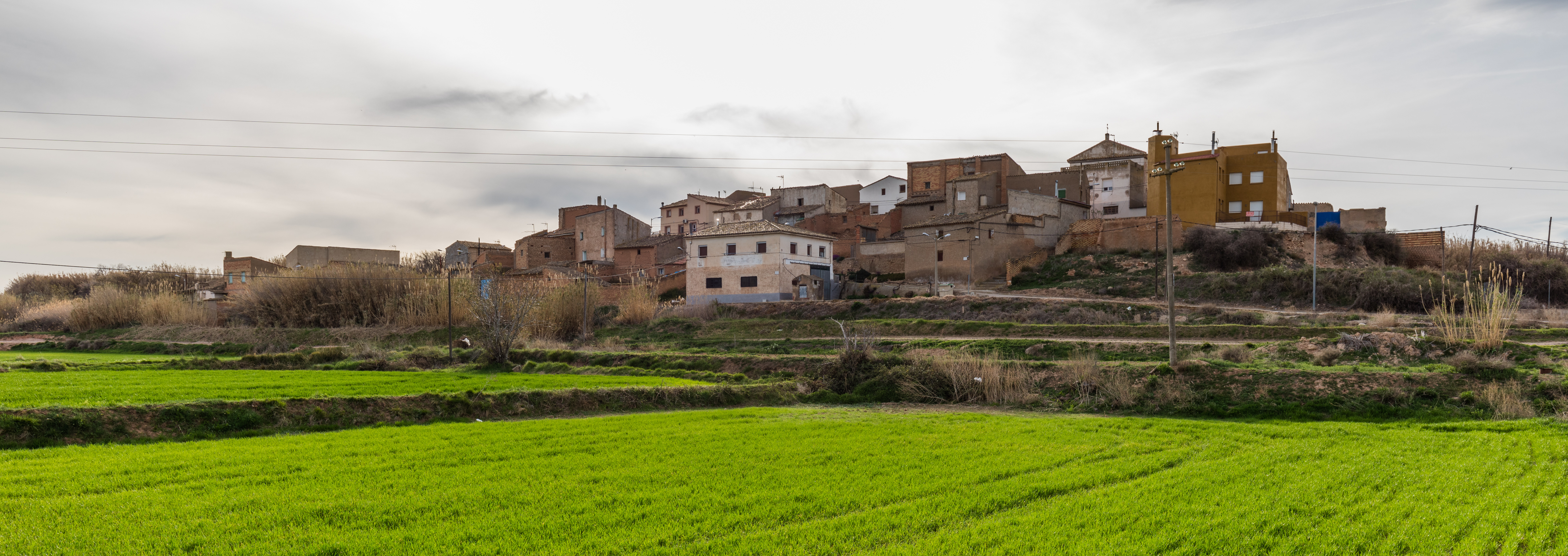 Oitura, Zaragoza, Spain